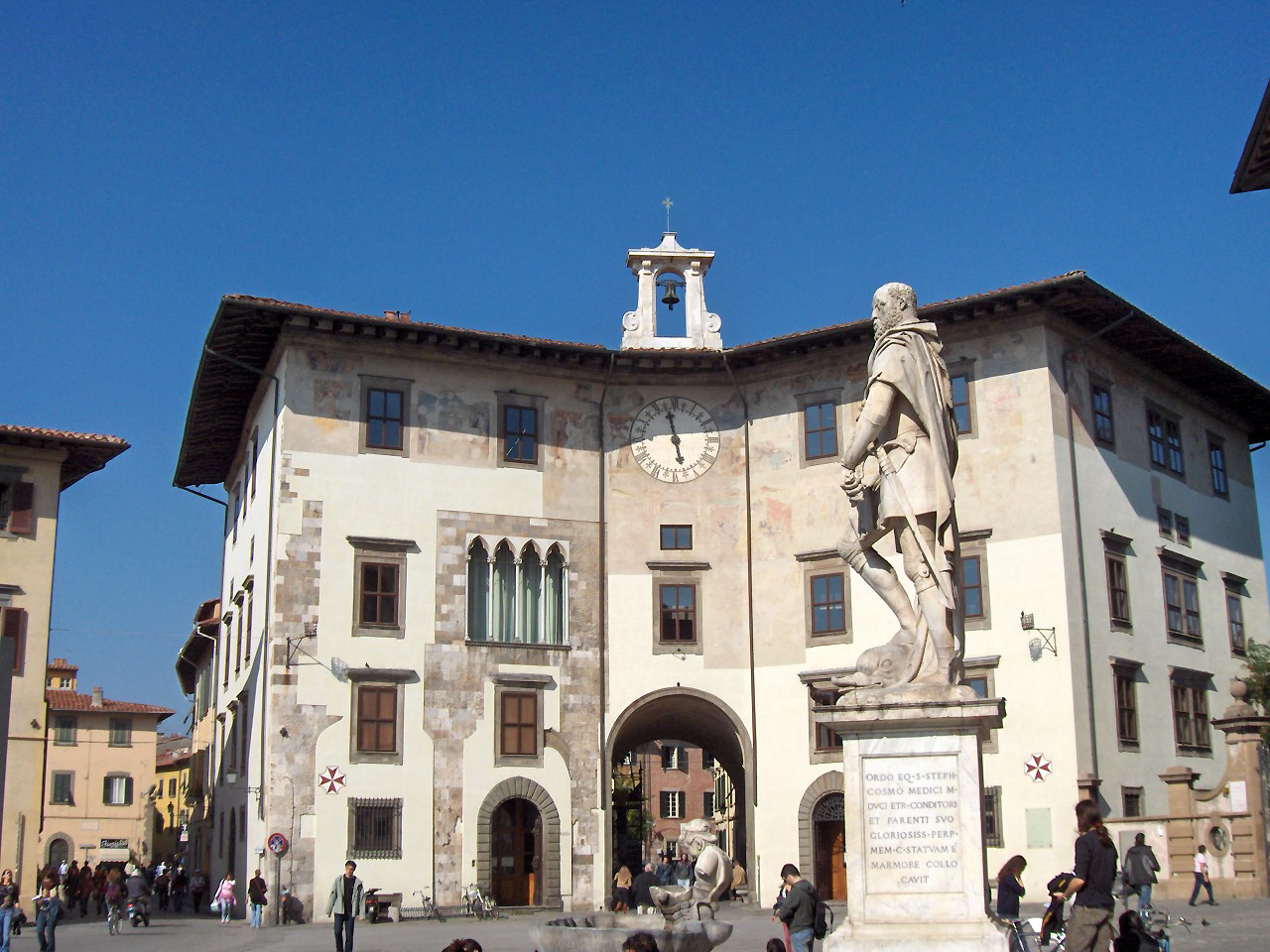 Piazza dei Cavalieri with statue of Cosimo I de' Medici; Pisa, Italy Own photo - photo taken by Georges Jansoone on 10 October 2005